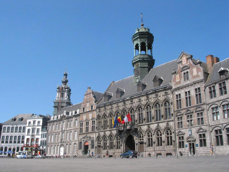 Mons (Belgium), the Grand'Place, the city hall and the belfry.